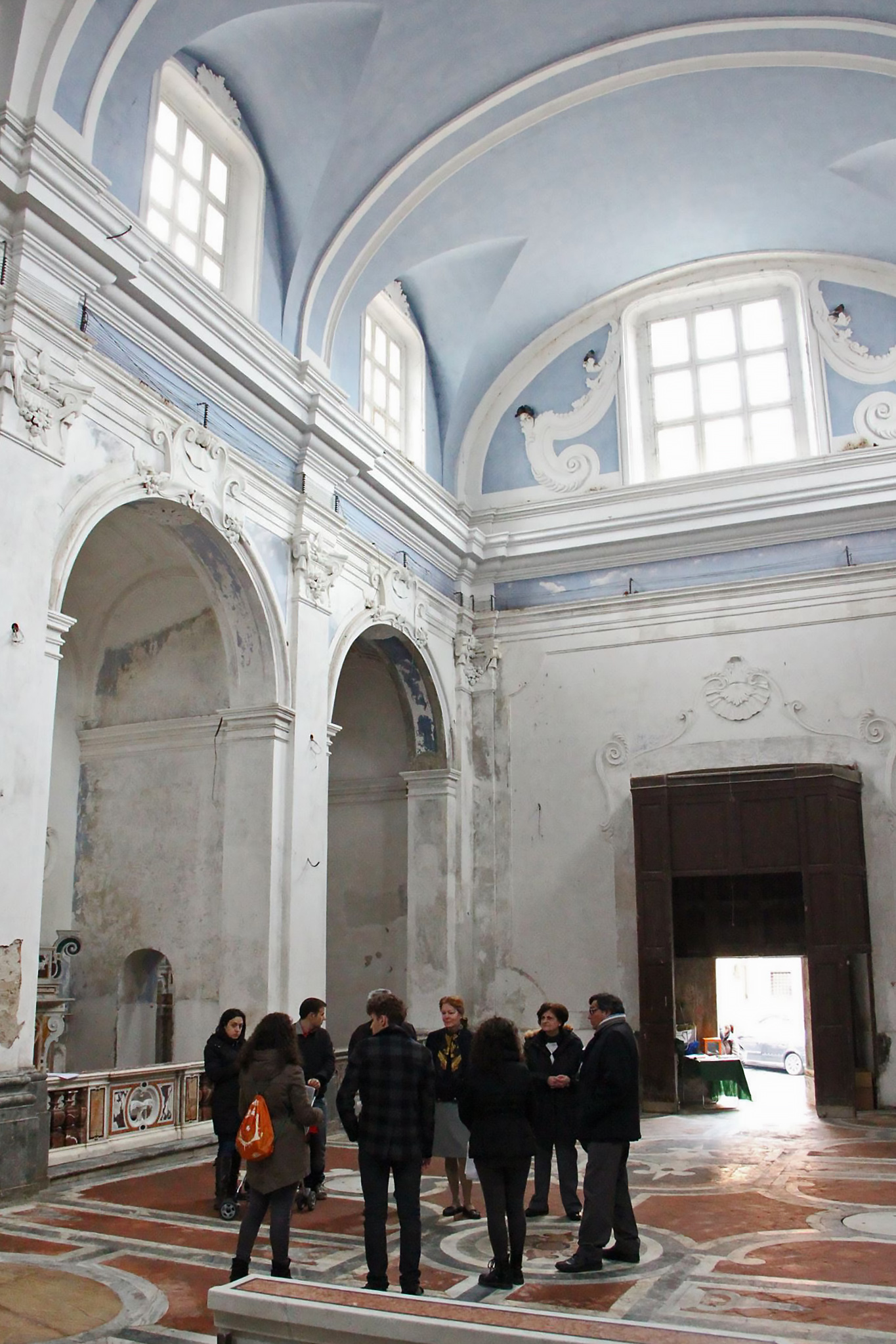 Interior of the church of San Marco dei Sabariani in Santa Teresa, Benevento, Italy, opened exceptionally on 22nd March 2015 during the Fondo Ambiente Italiano's "Giornate di Primavera"